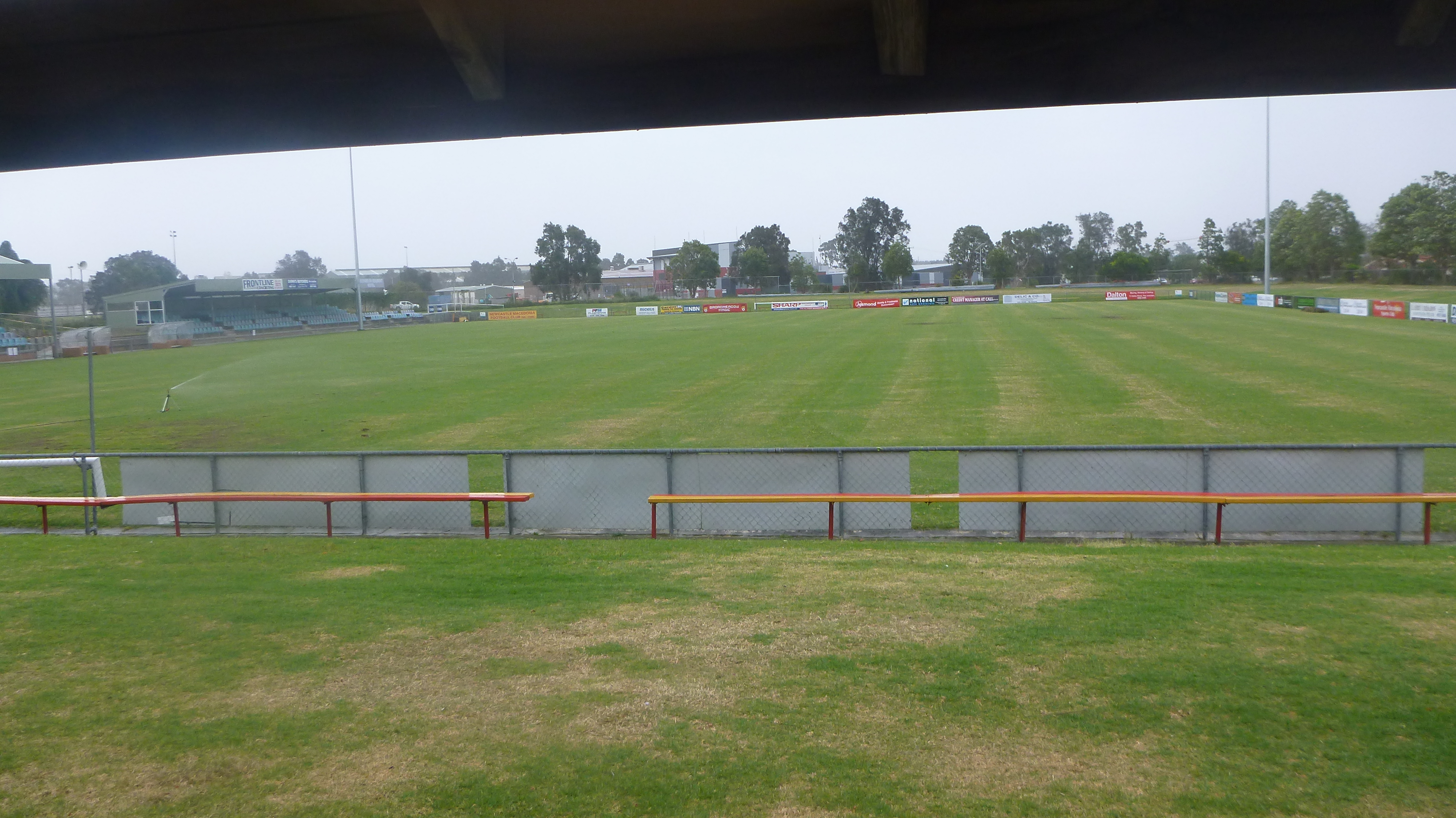 Wanderers Oval in Broadmeadow, New South Wales, Australia. View of the field from the southern end of the oval looking approximately north